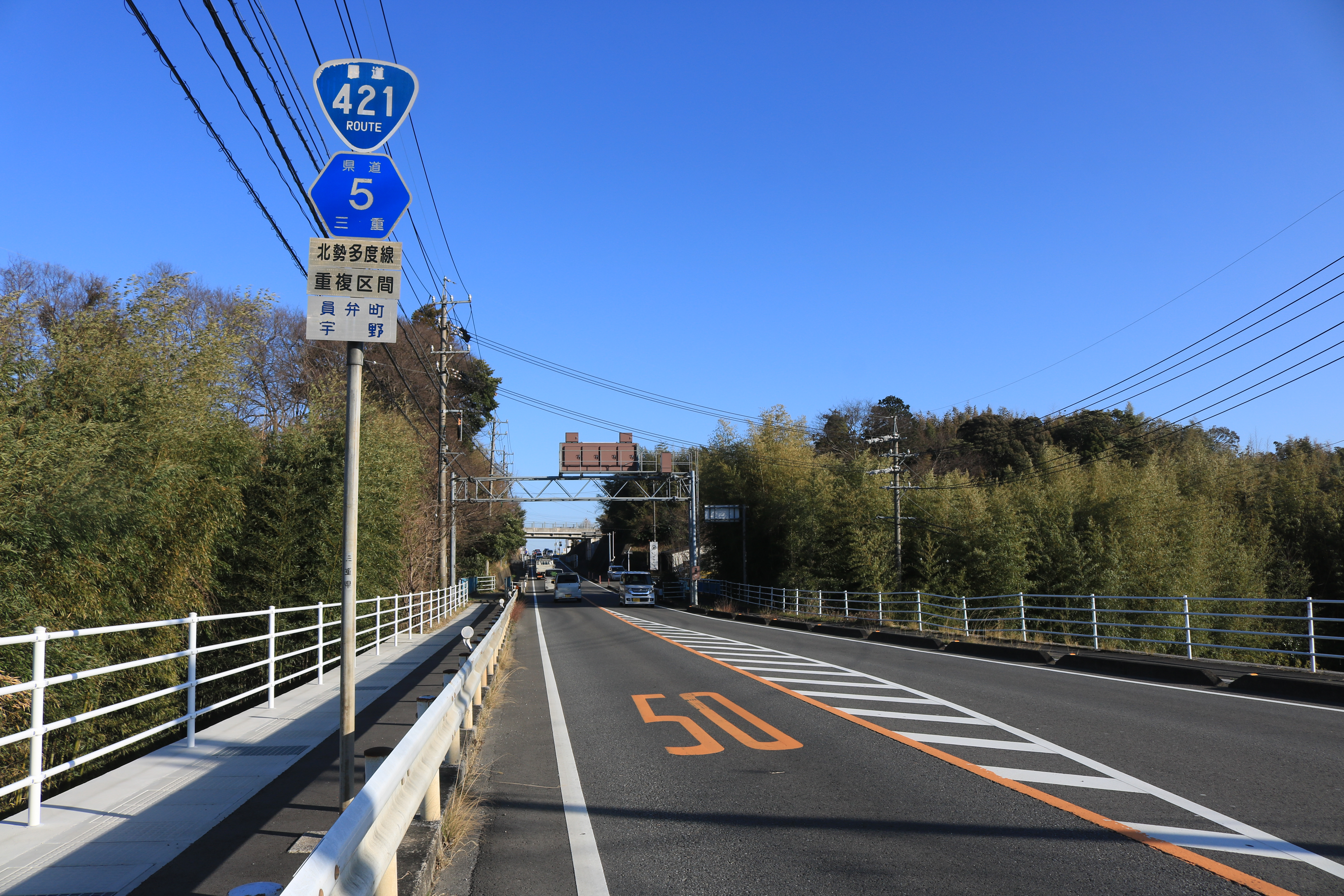 Route 421 and Mie Prefectural Road Route 5 in Uno, Inabecho, Inabe, Mie Prefeture, Japan.